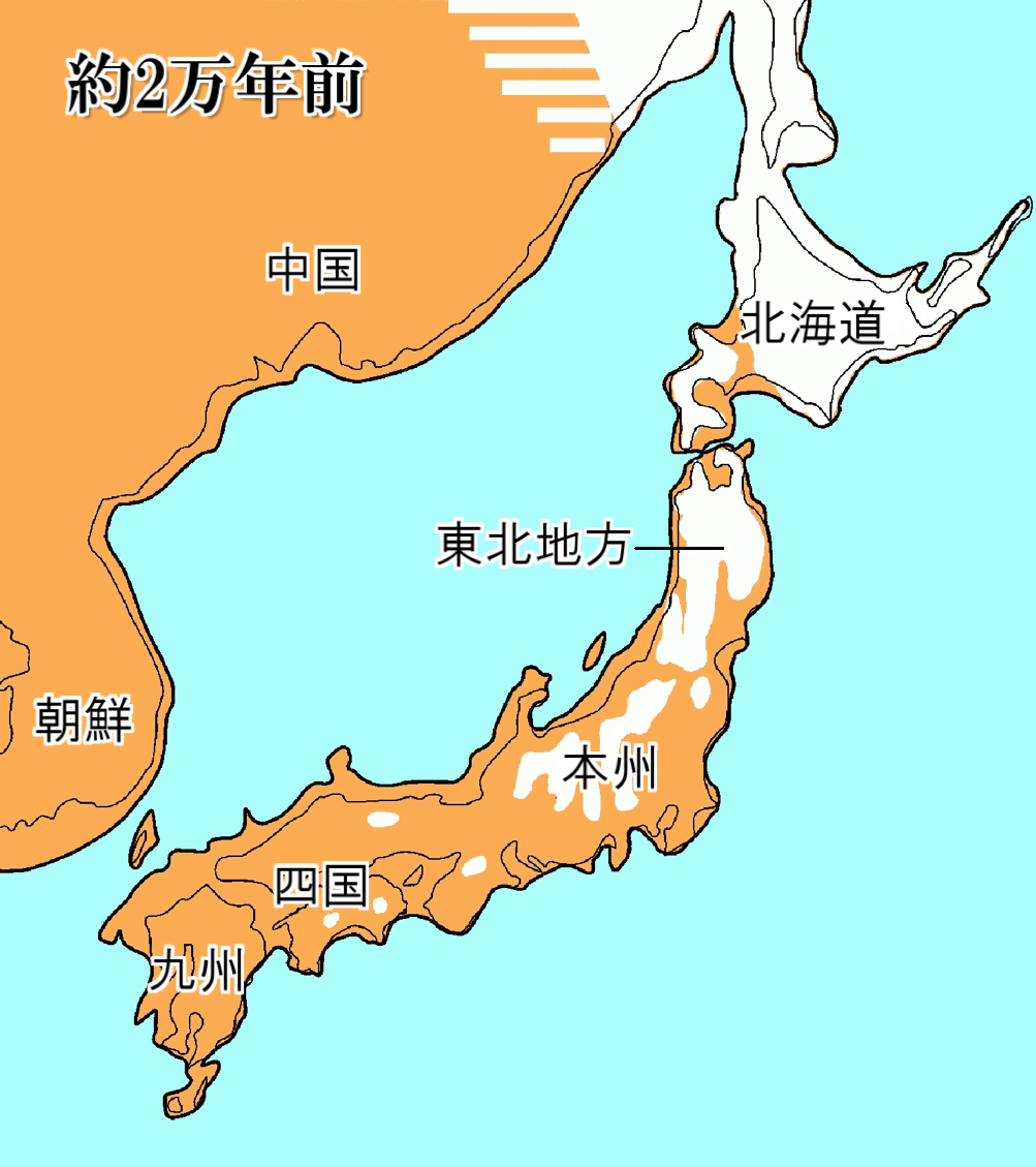 Map of the Periglacial Region in Japan at the Height of the Last Glaciation about 20,000 years ago